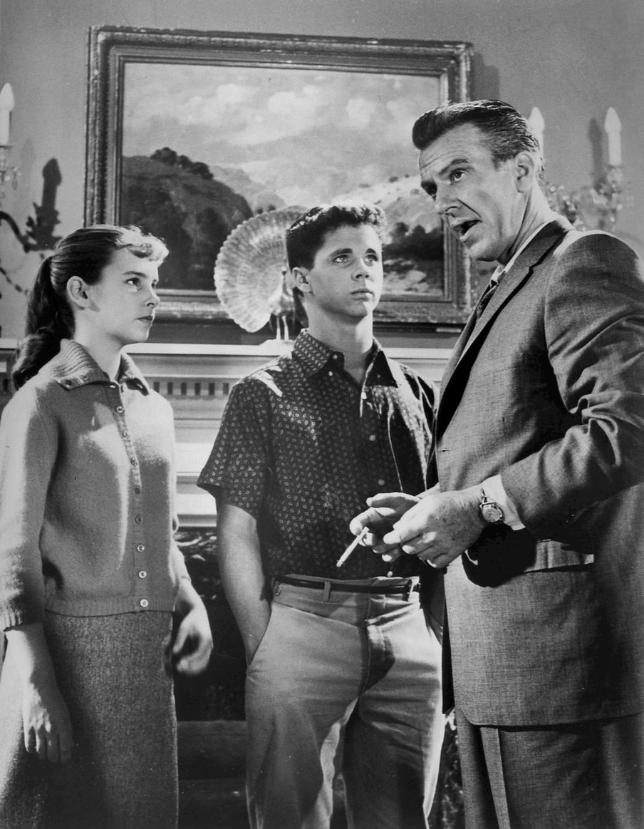 Photo of Carol Sydes aka Cindy Carol, Tony Dow and Hugh Beaumont from Leave It to Beaver.